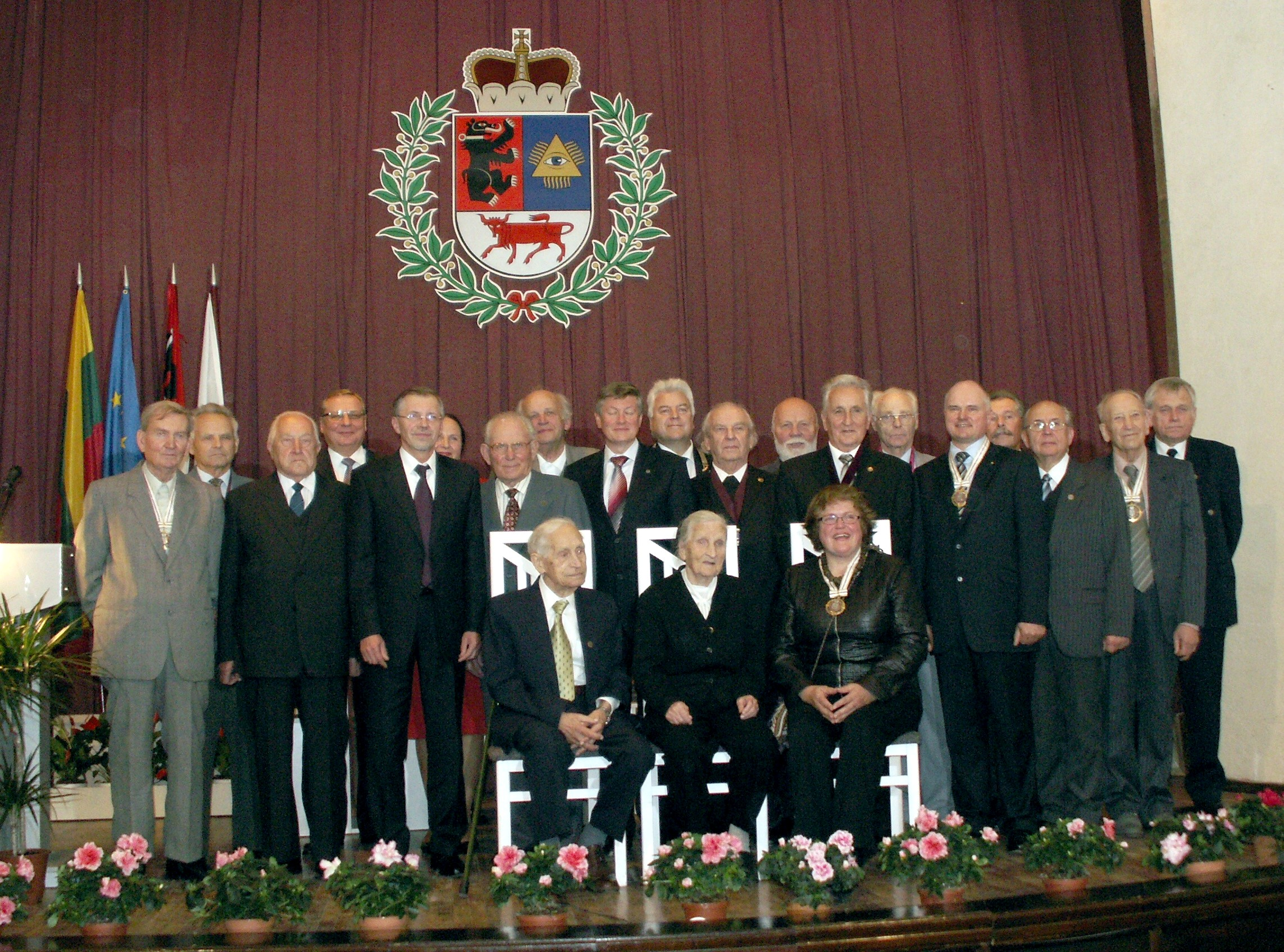 Honorary citizens of Šiauliai in 2008, Lithuania